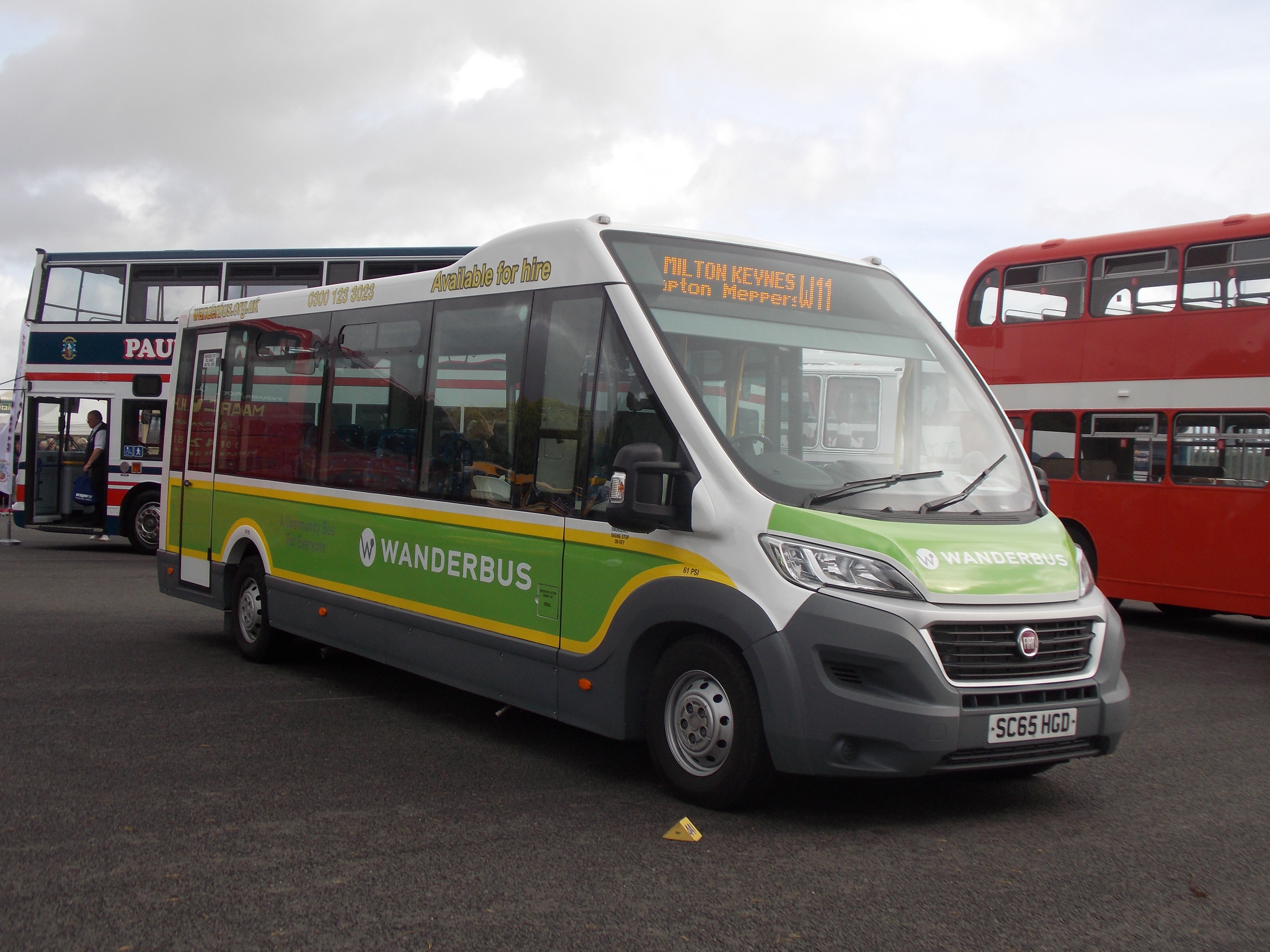 SC65HGD, a Mellor Orion-bodied Fiat Ducato operated by Wanderbus, seen attending Showbus 2016 at Donington Park, Leicestershire on 25 September 2016.